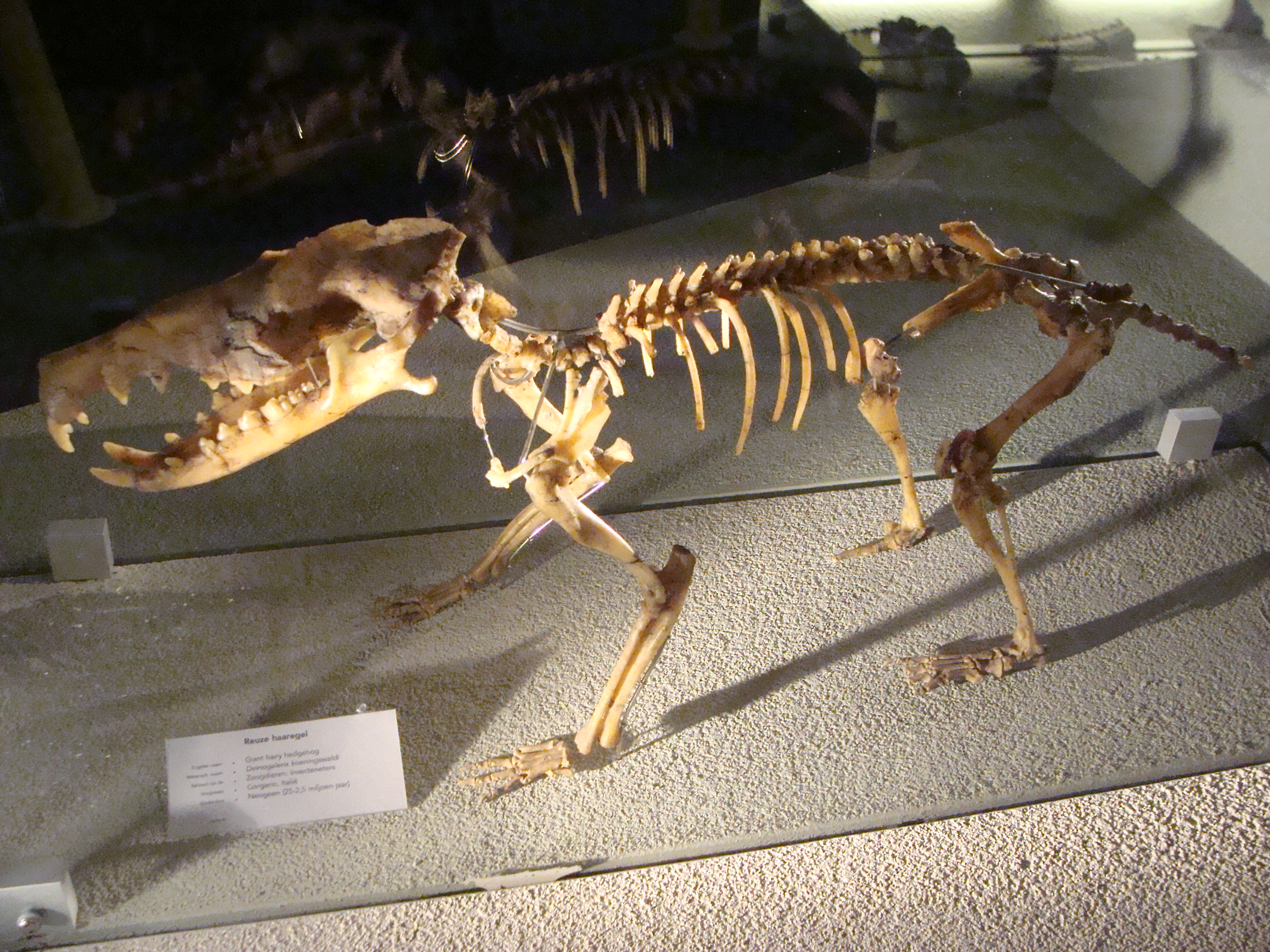 Deinogalerix koenigswaldi was a giant hairy hedgehog. This fossil (from South Gargano, Italy / 25-2,5 million years old) is on display in the National Museum of Natural History "Naturalis" in Leiden, the Netherlands.